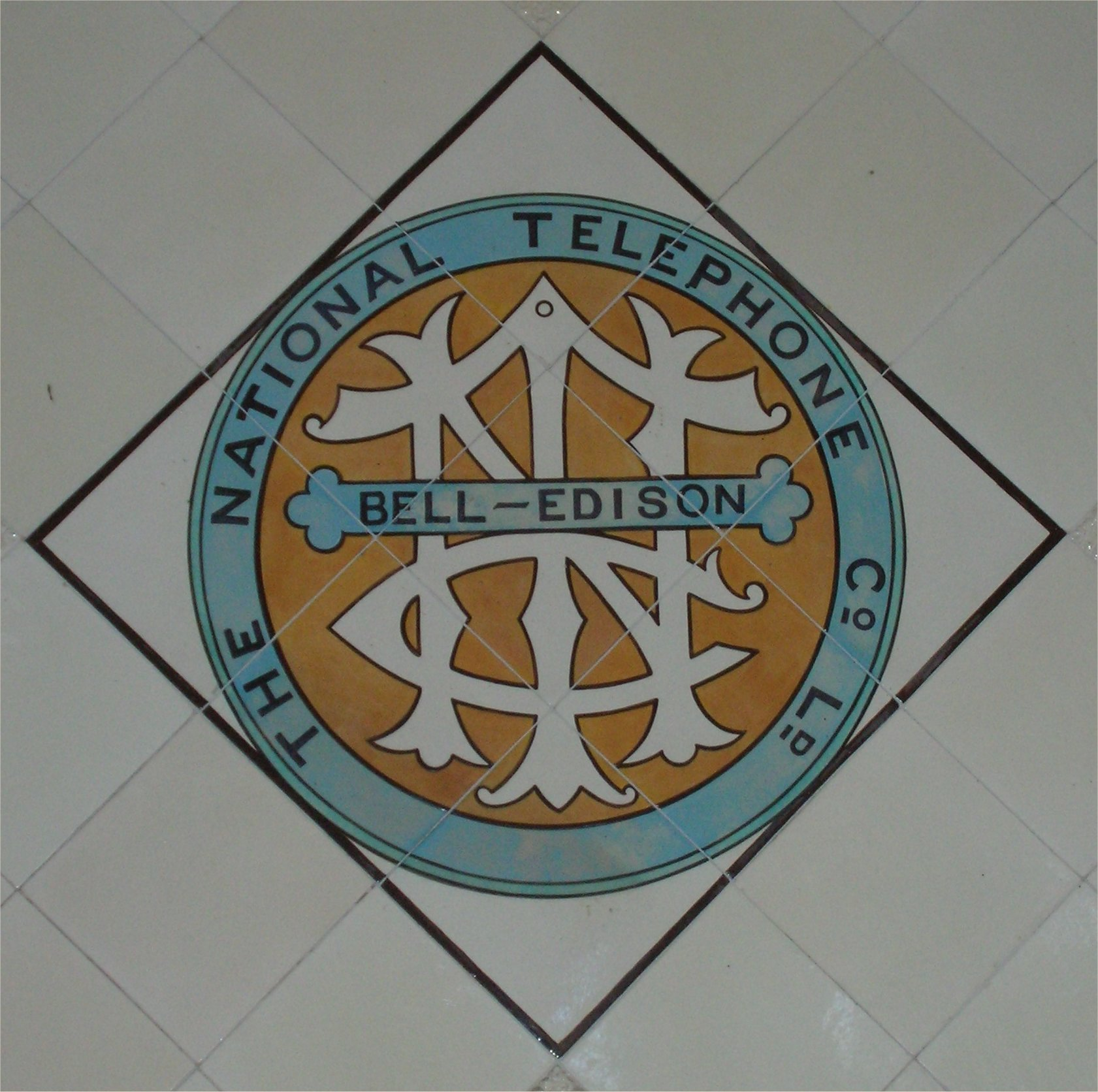 Bell Edison logo of the National Telephone Company. Photographed in porch of 17 & 19 Newhall Street, Birmingham, England, 25 June 2006 by me. Oosoom